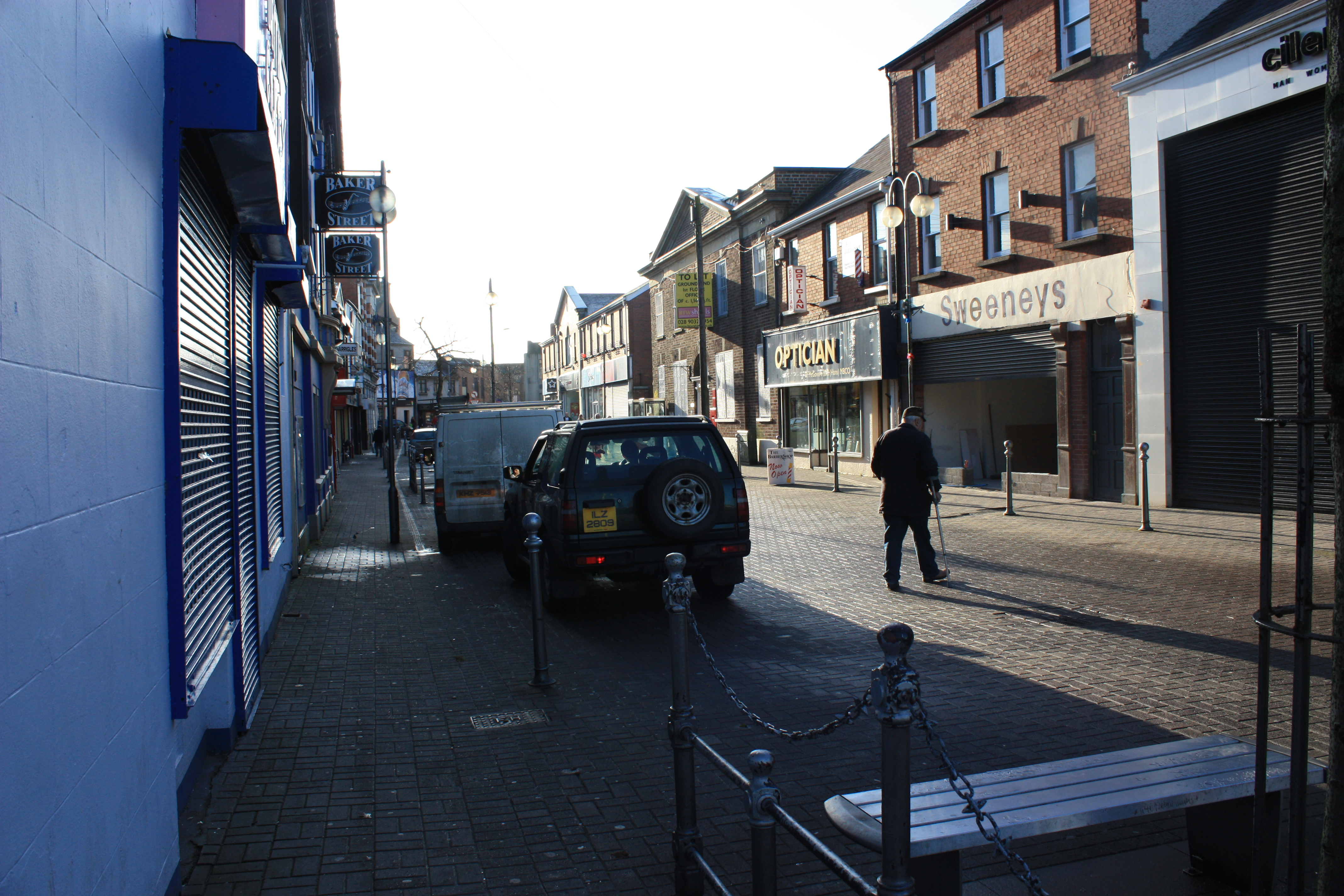 Castle Street, Strabane, County Tyrone, Northern Ireland, January 2010 (viewed from junction with Abercorn Square)